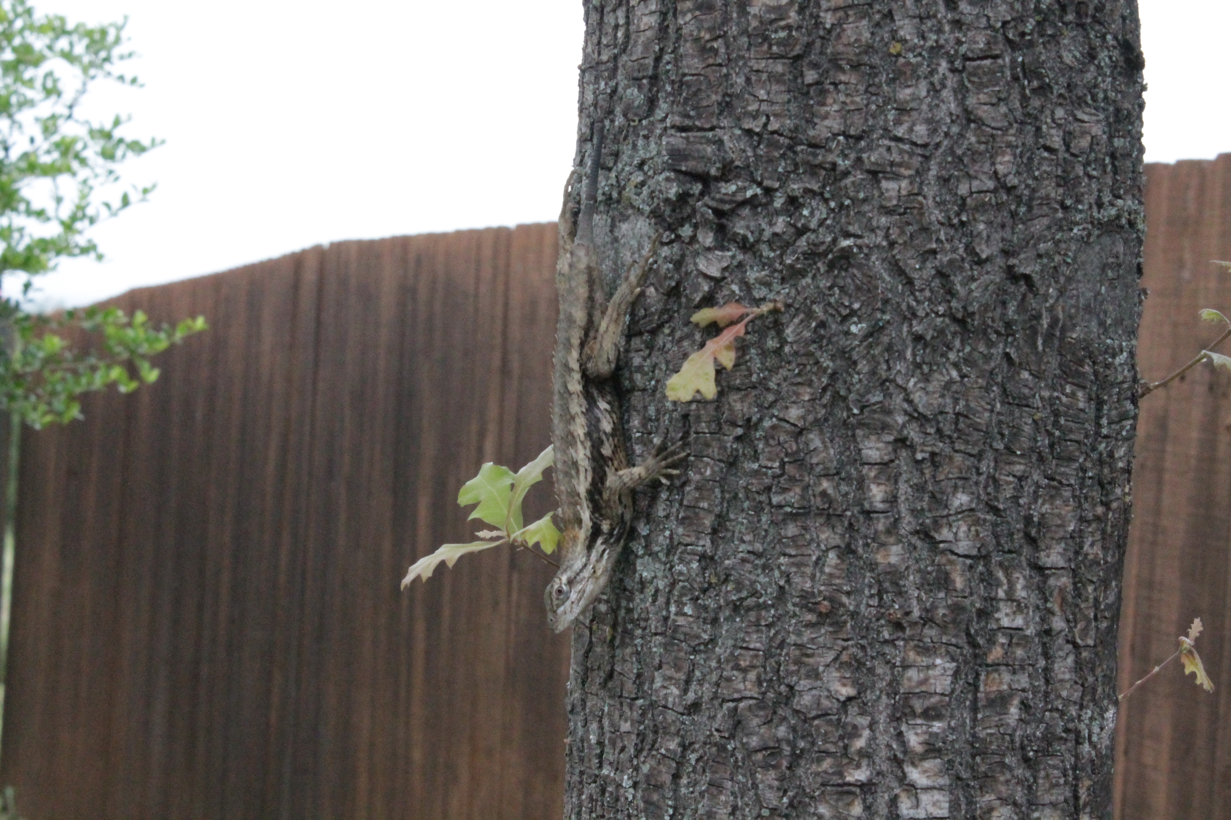 Texas Spiny Lizard (Sceloporus Olivaceus) that has a damaged tail hanging on the side of a red oak tree (IMG #4866)